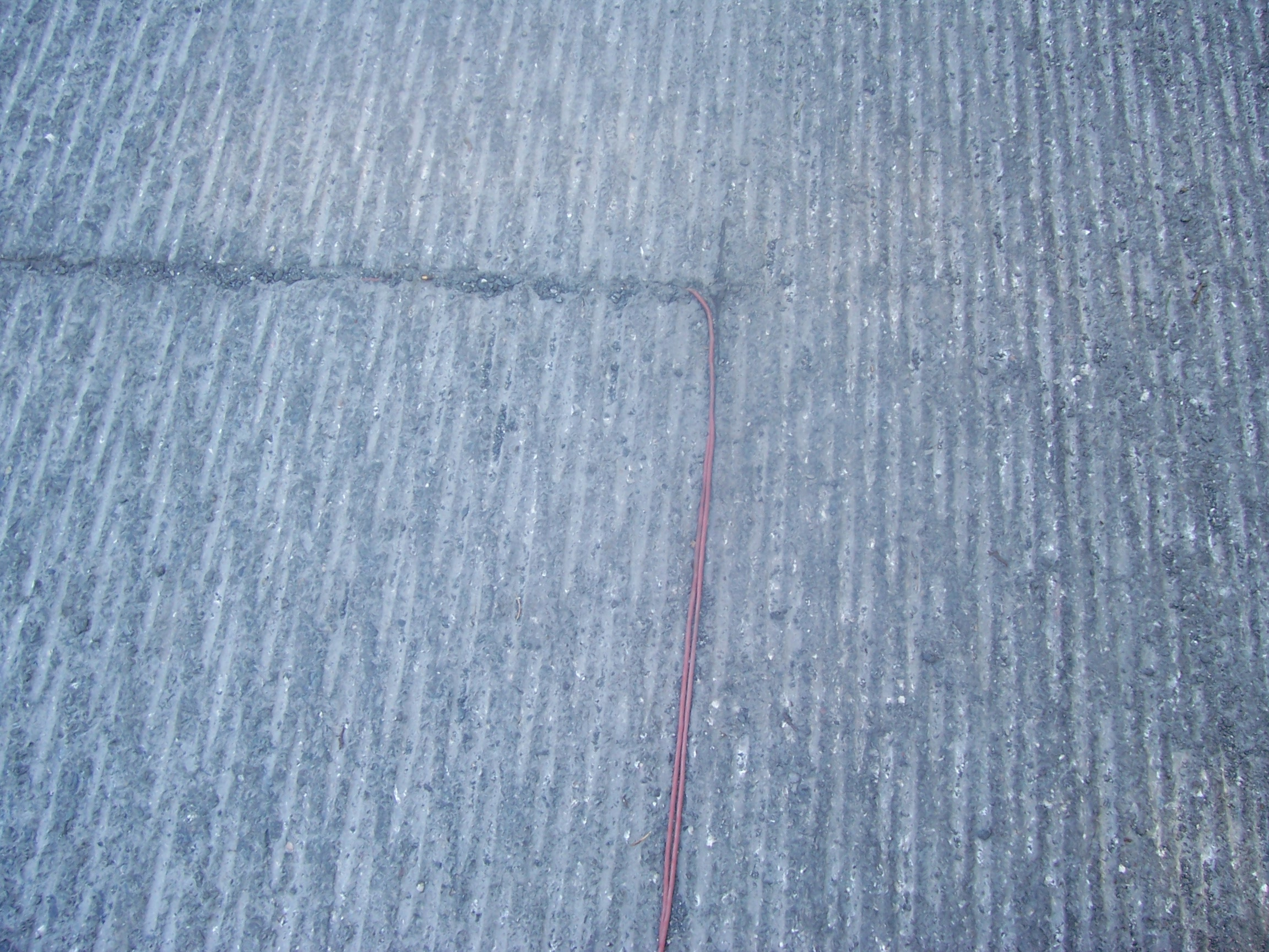 Induction loop